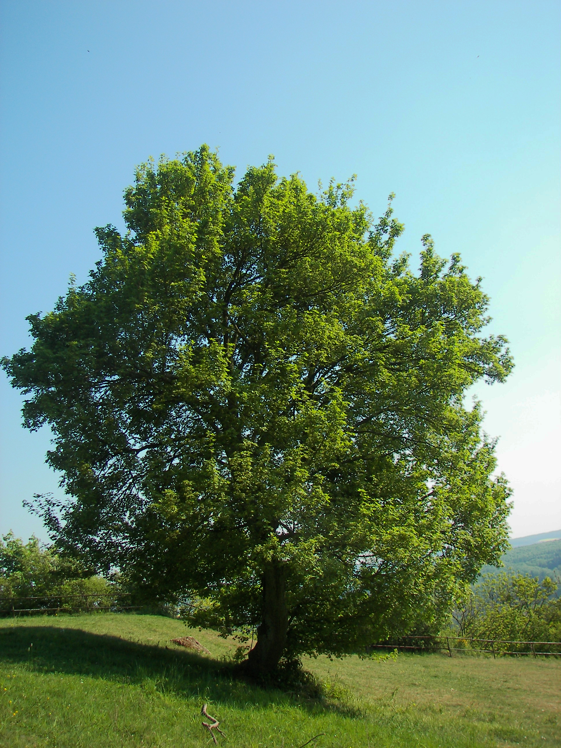 Field Maple (Acer campestre), Location: Ebsdorfergrund-Frauenberg, Hesse, Germany